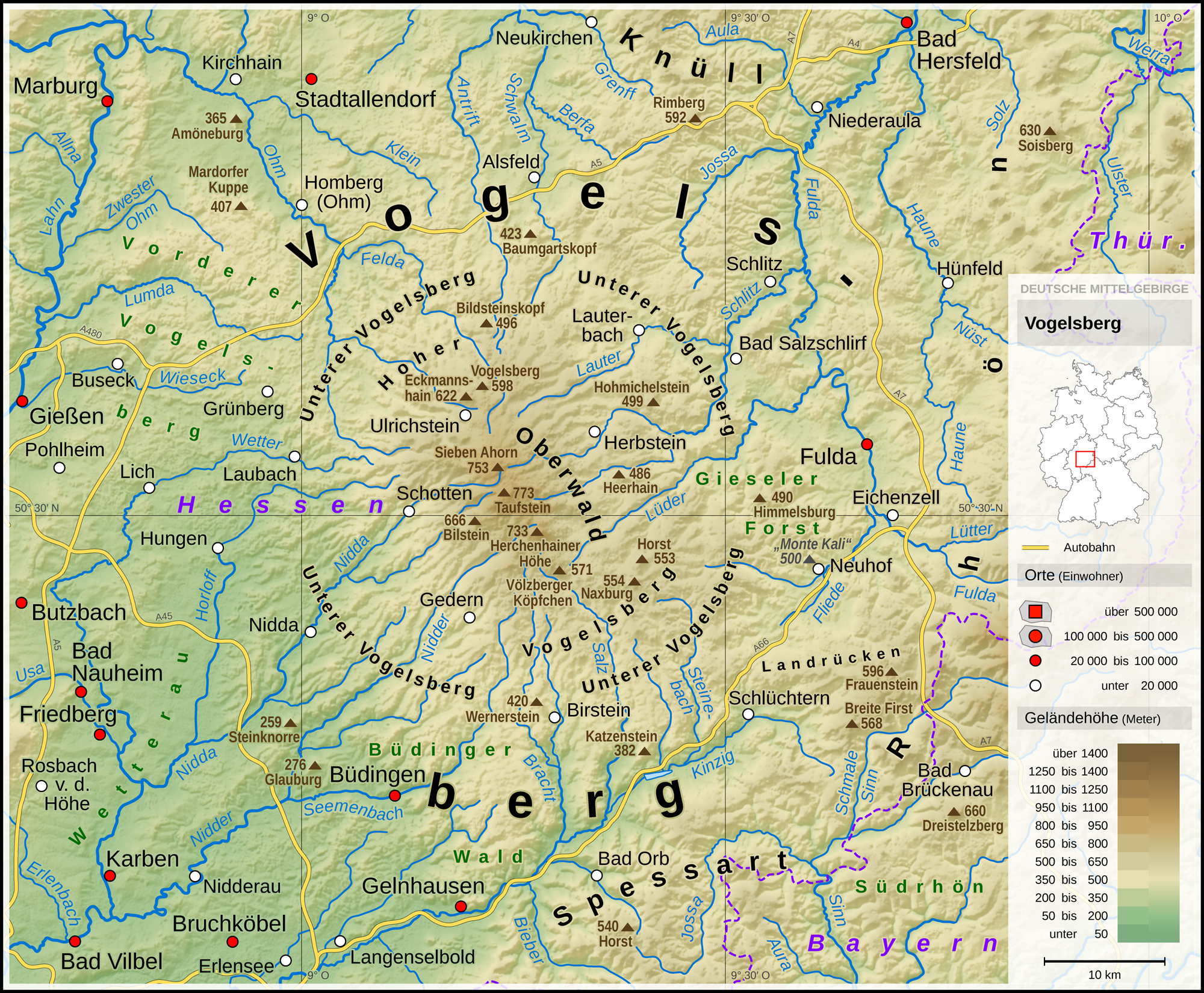 Topographic map of the Vogelsberg Mountains